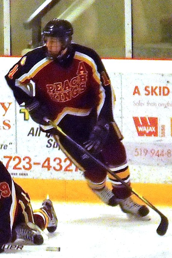 These images of OHA Jr. C action during the 2011-12 season are taken by Devan Mighton.